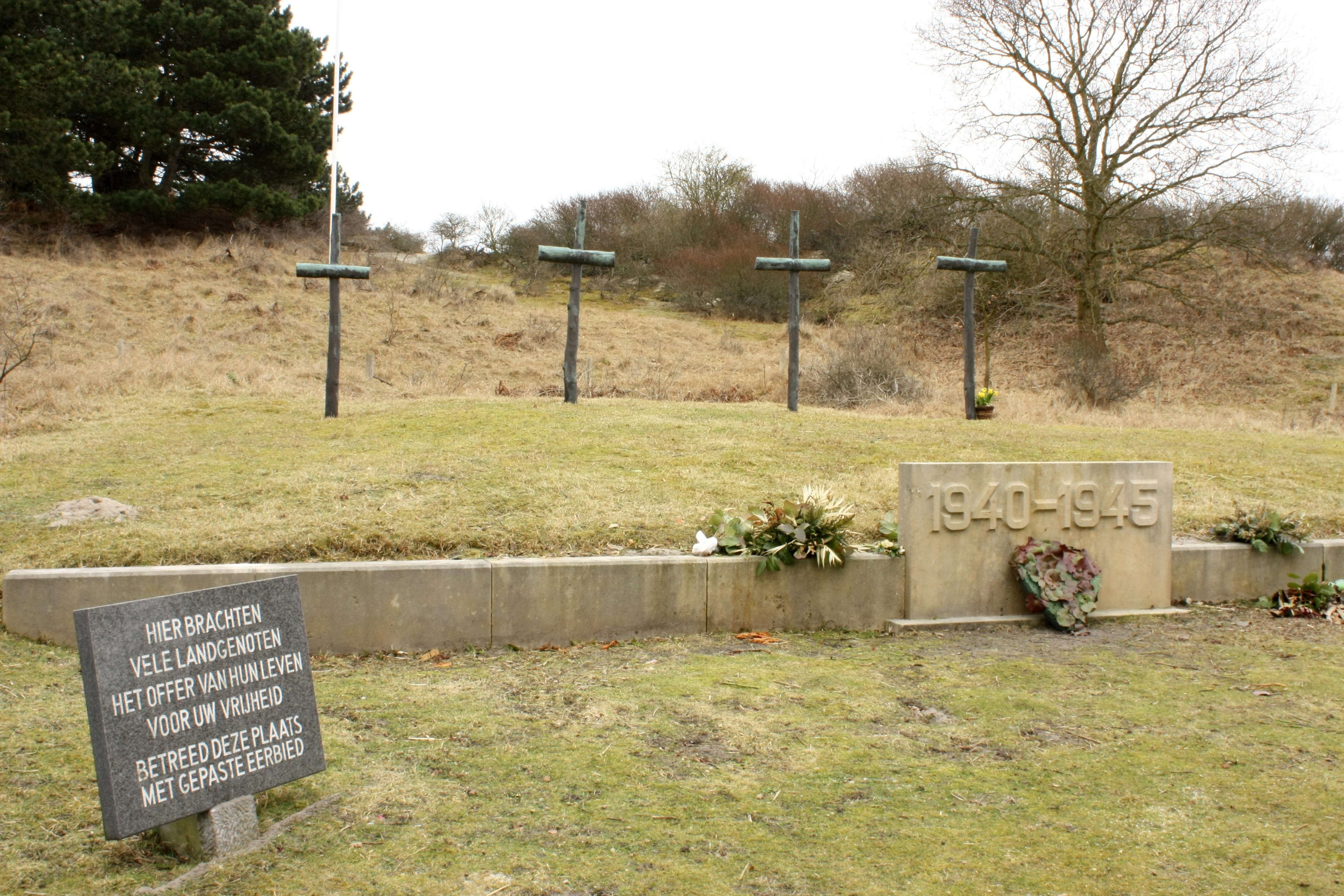 The monument for those who were executed on the Waalsdorpervlakte during World War II. The text on the plaque reads: "Many of our fellow country men brought the offer of their life here, for your freedom. Enter this place with suitable respect."